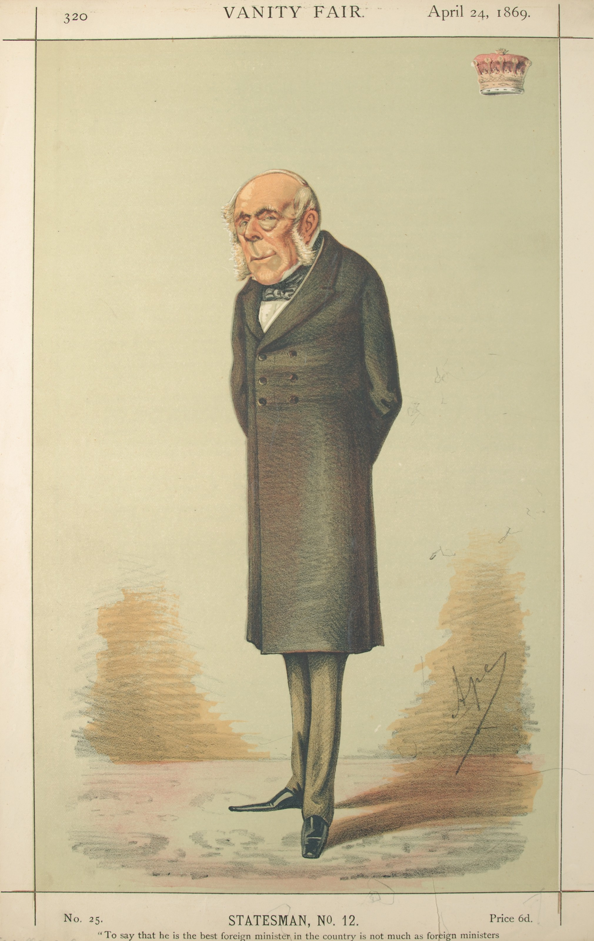 Statesmen No.12: Caricature of The Earl of Clarendon. Caption reads: "To say that he is the best foreign minister in the country is not much as foreign ministers go; but as times go it is a great deal."